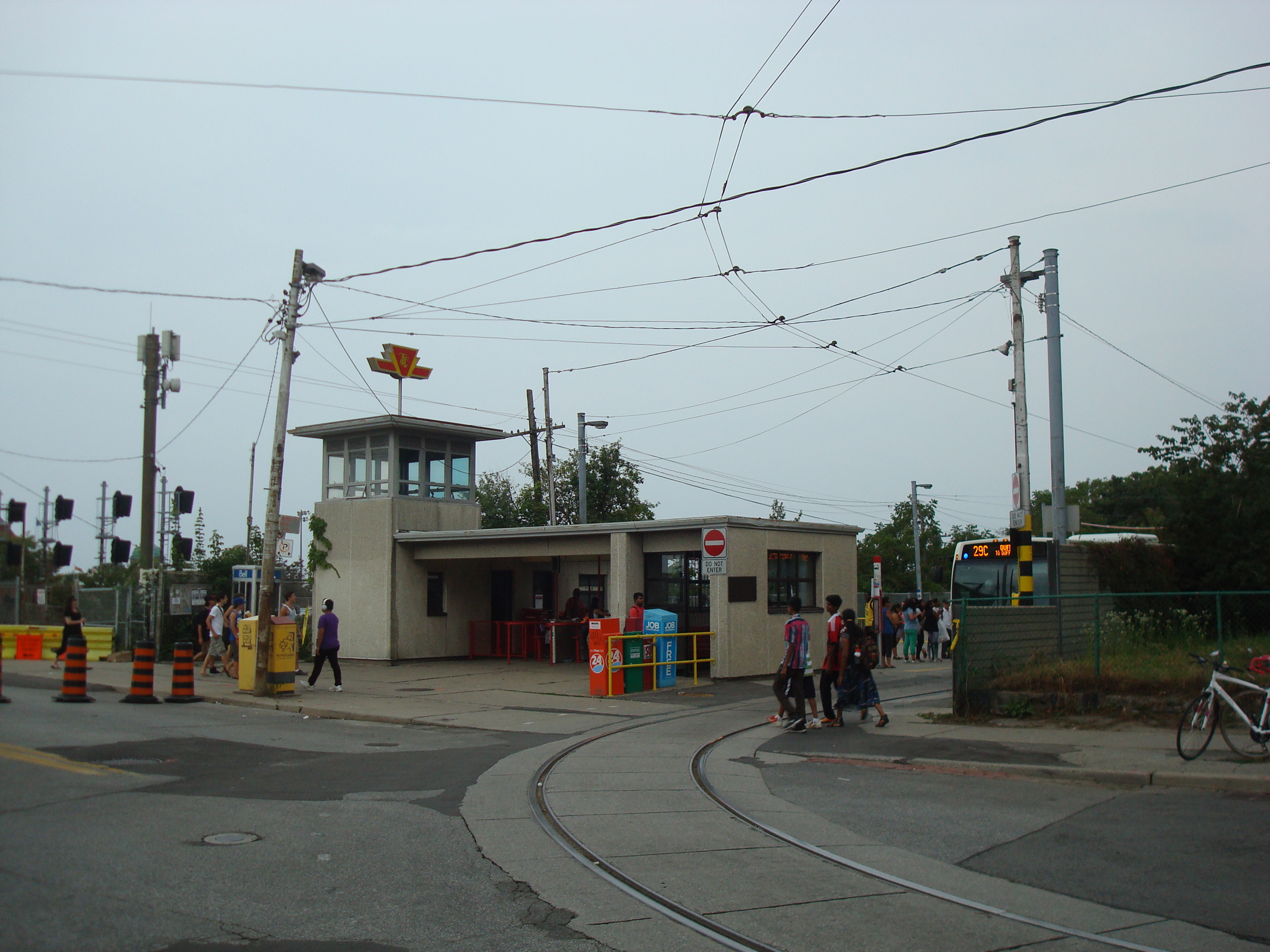 The Dufferin Loop near the Dufferin Gates into Exhibition Place, as seen on August 27, 2013. It is the southern terminus of the 29 Dufferin bus and is a common short turn for the 504 King streetcar.